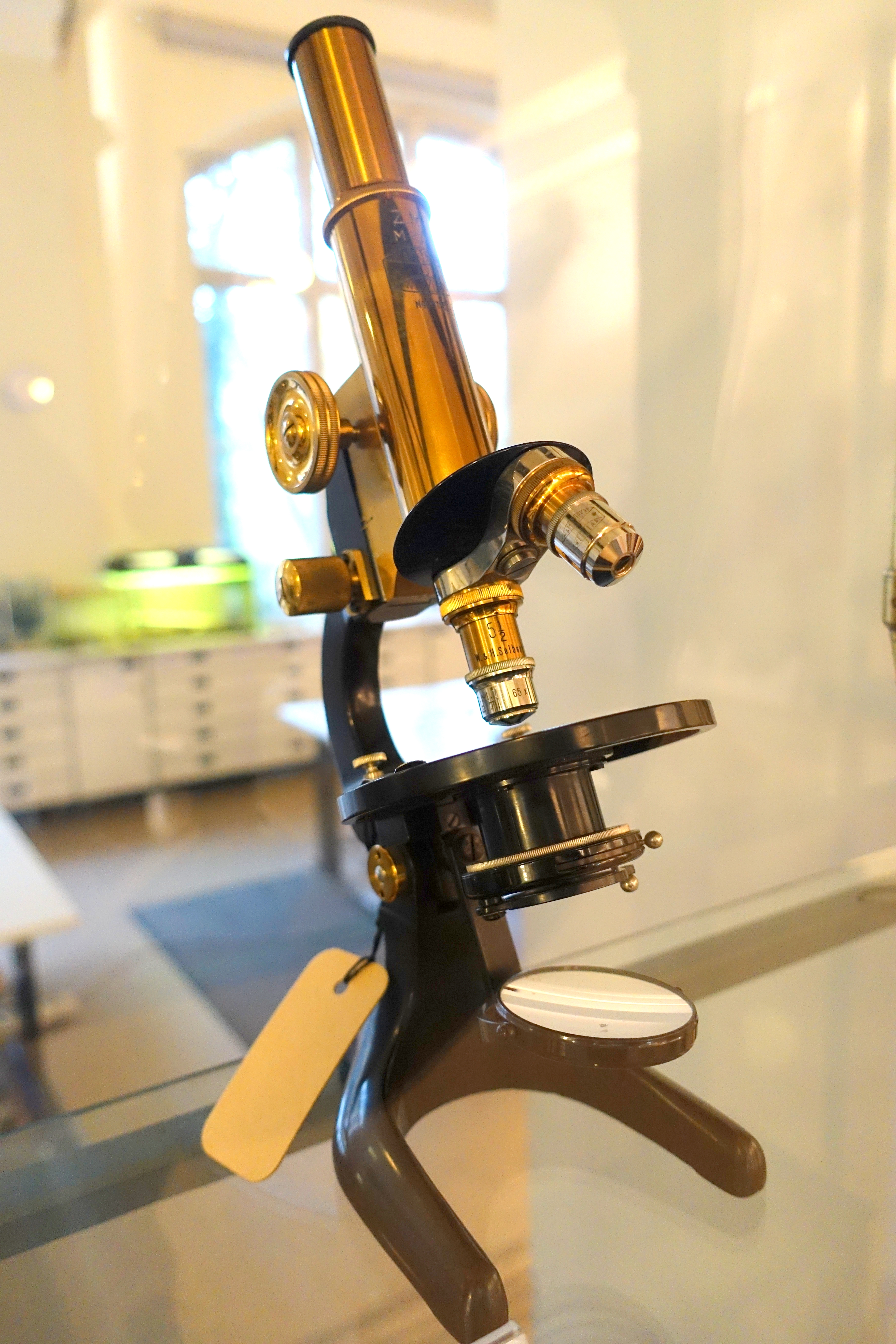 Exhibit in Museum für Naturkunde, Berlin, Germany.